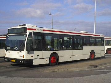 Den Oudsten B96 Alliance City in The Hague-Scheveningen, Netherlands. HTM Personenvervoer NV operator.